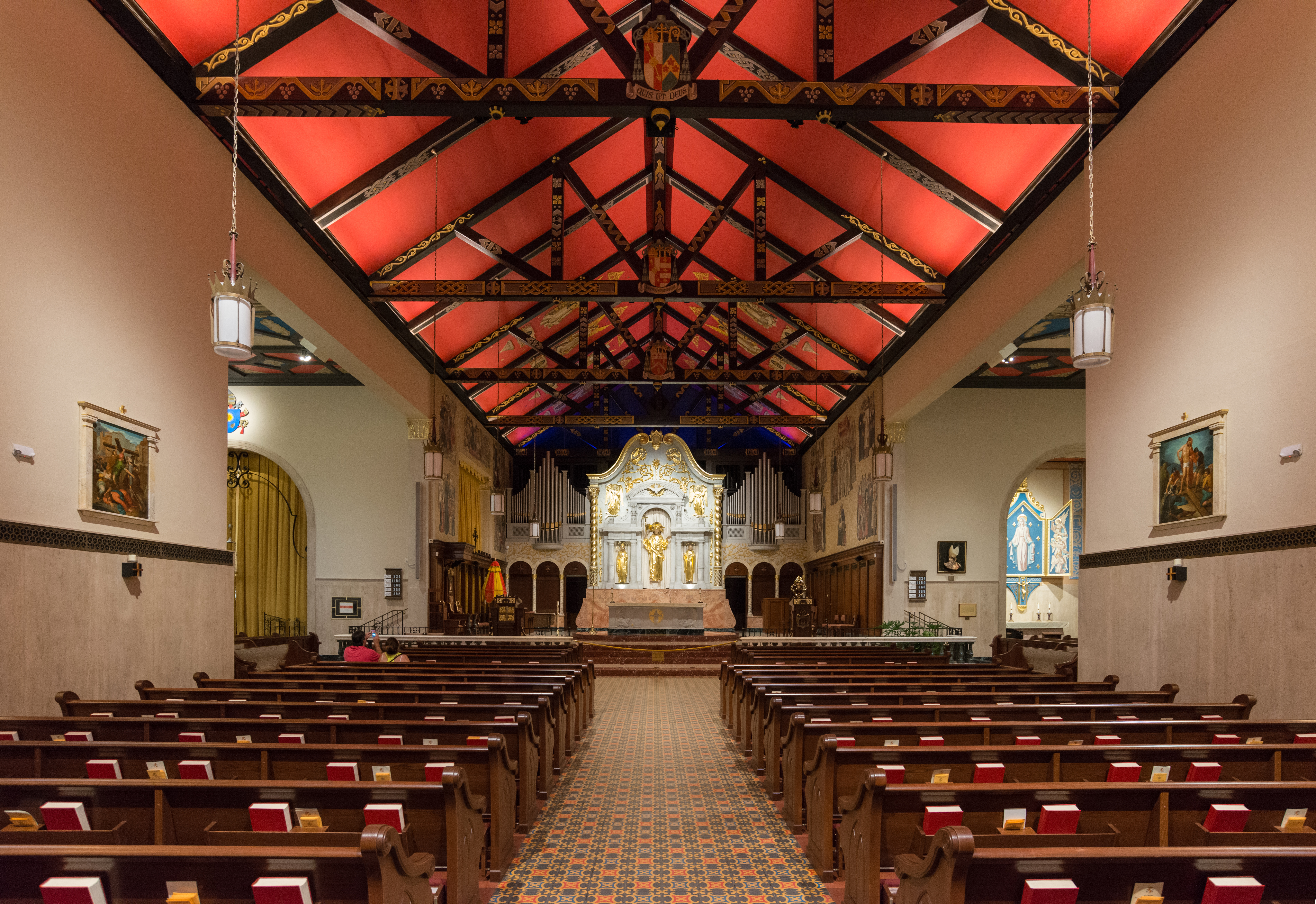 An interior view of the Cathedral Basilica of St. Augustine, Florida